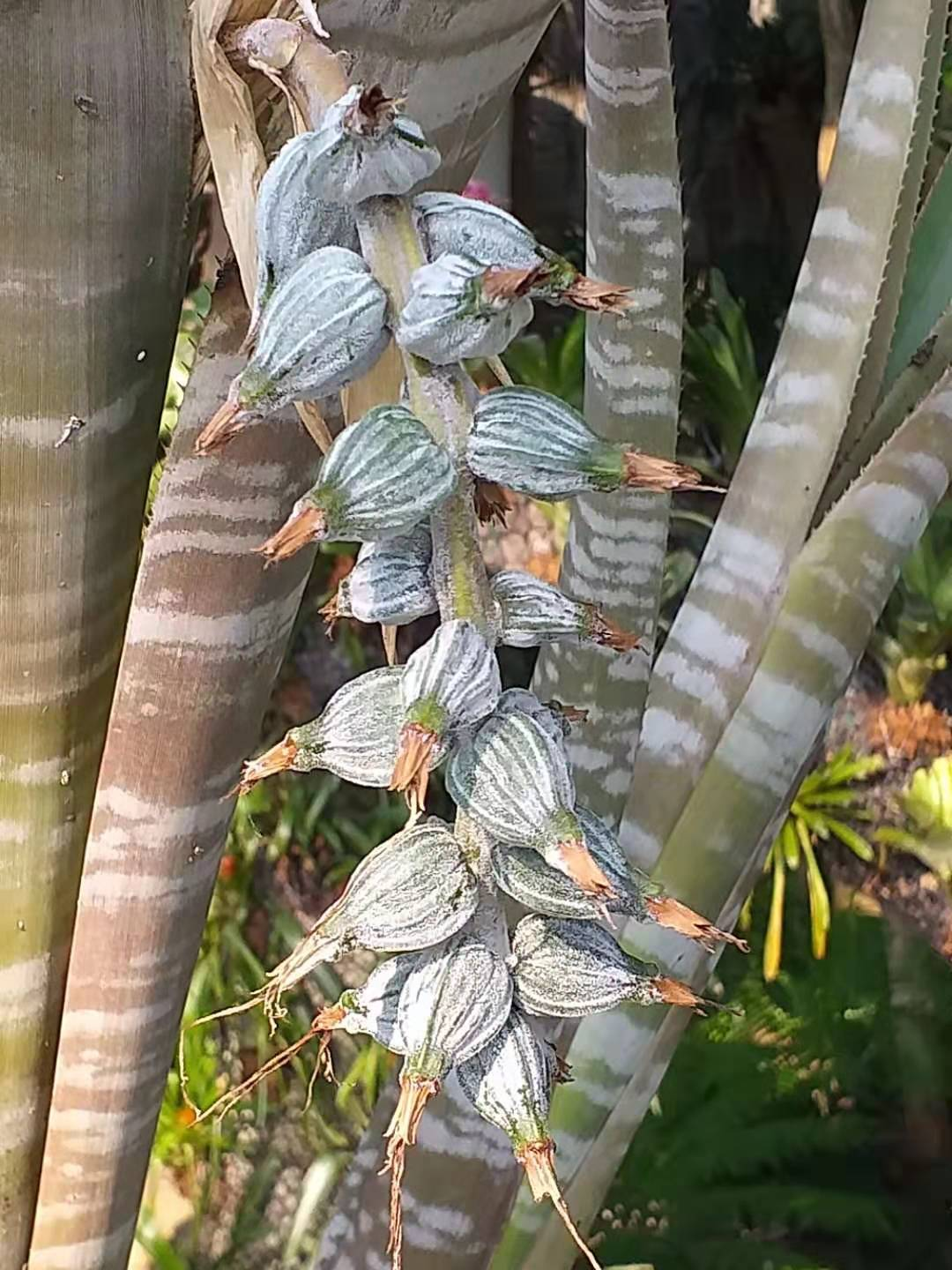 Fruit of Billbergia vittata. Botanical Garden of National Museum of Natural Science, Taichung, Taiwan.